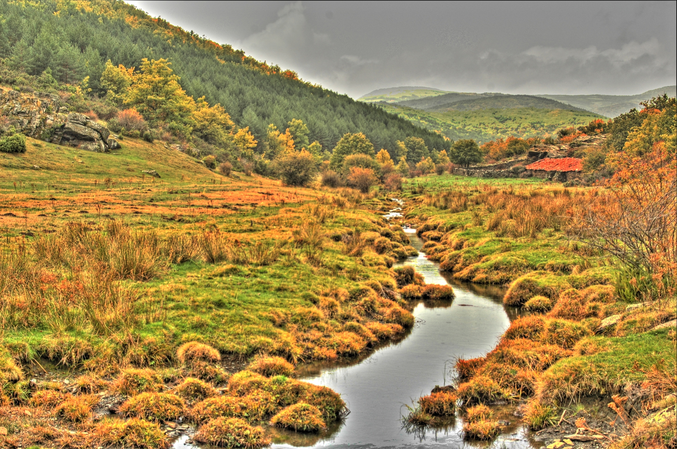 Lillas riverin the Tejera Negra beech grove (Cantalojas, Guadalajara, Spain).